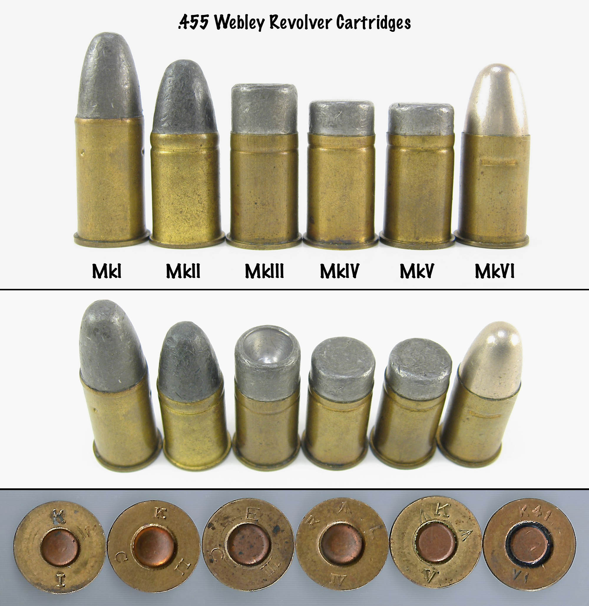 .455 Webley Revolver cartridges Marks I through VI